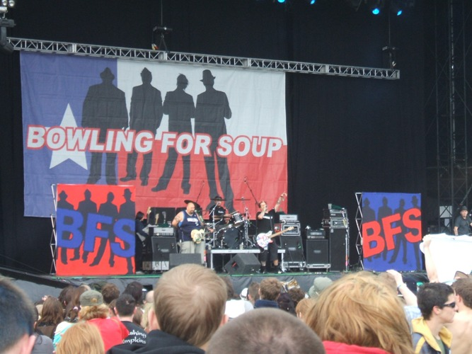 Bowling for Soup playing in Oxegen, Ireland. They opened the Main Stage on the Saturday of Oxegen '08 with my mate Daniel and Joes heads.(closest to the camera, black jumperand red jumper)